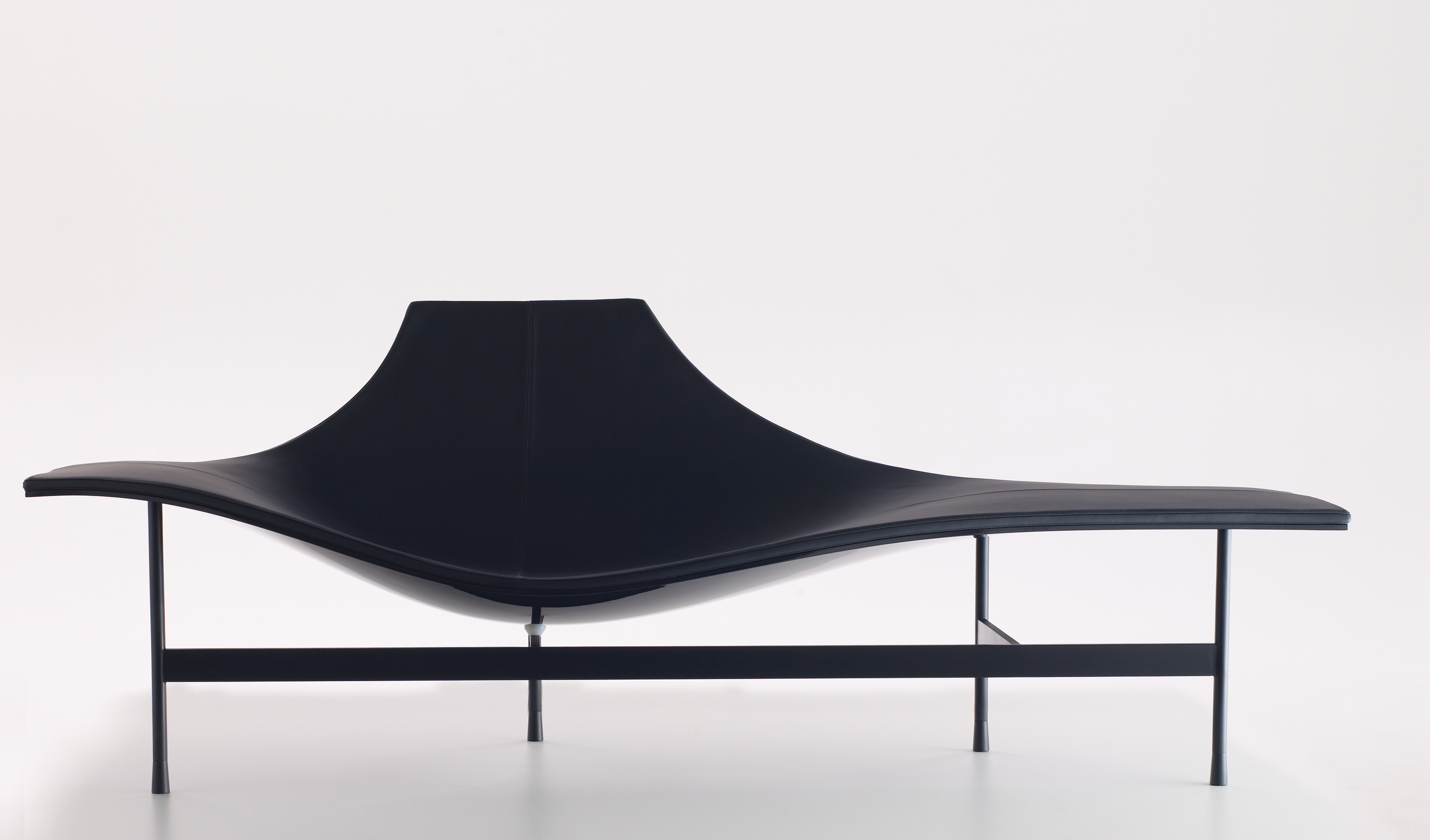 Terminal 1, B&B Italia 2008